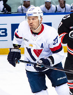 Slovak ice hockey player Ladislav Nagy in HC Slovan Bratislava jersey